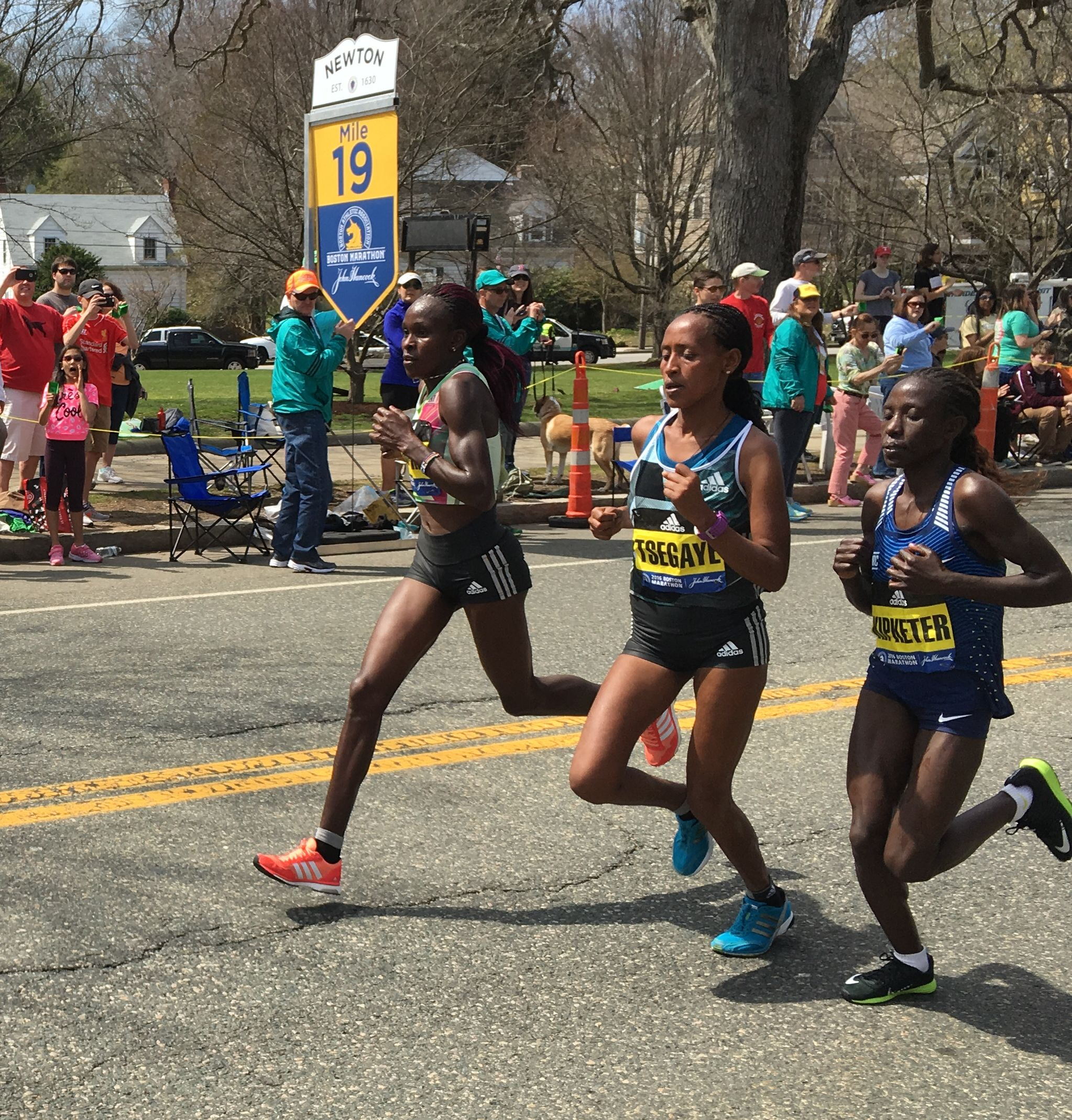 Three women, Joyce Chepkirui, of Kenya. and Tirfi Tsegaye, of Ethiopia, and Valentine Kipketer, also of Kenya, lead the pack passing mile 19 in Newton,Massachusetts during the w:2016 Boston Marathon. Tsegaye went on to win second place in the elite women's division.